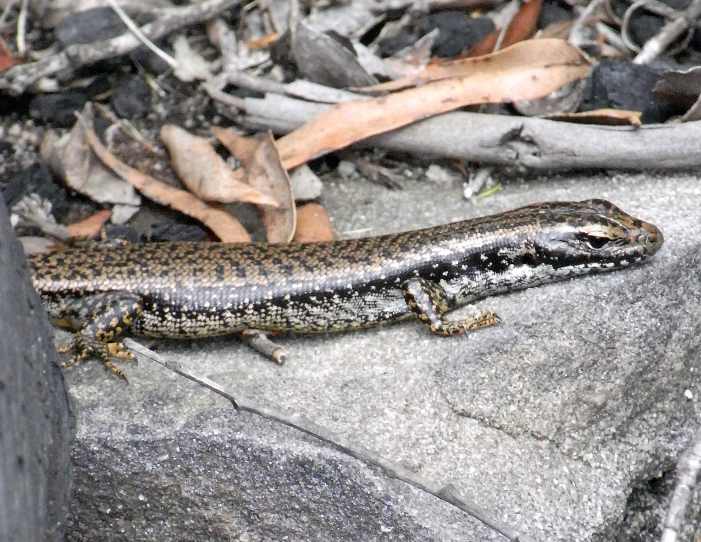 Golden Water Skink (Eulamprus quoyii) at the walking track from Govetts Leap to Pulpit Rock, Blue Mountains National Park, Australia.